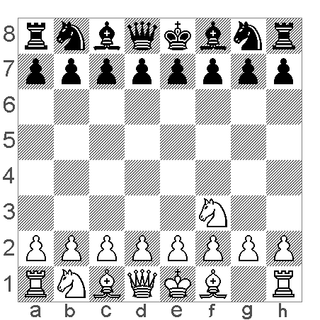 chess diagram Reti opening Source: CBlight + my processing